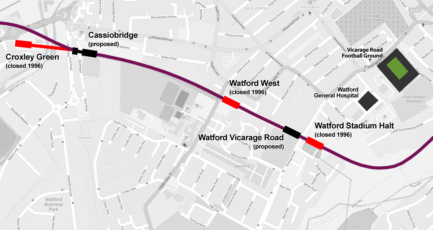 Map showing the relative positions of former stations of the LNWR Watford and Rickmansworth Railway (closed 1996) and the new stations of the Croxley Rail Link, expected to open in 2018, in Watford, Hertfordshire, UK This map may be incomplete, and may contain errors. Don't rely solely on it for navigation.